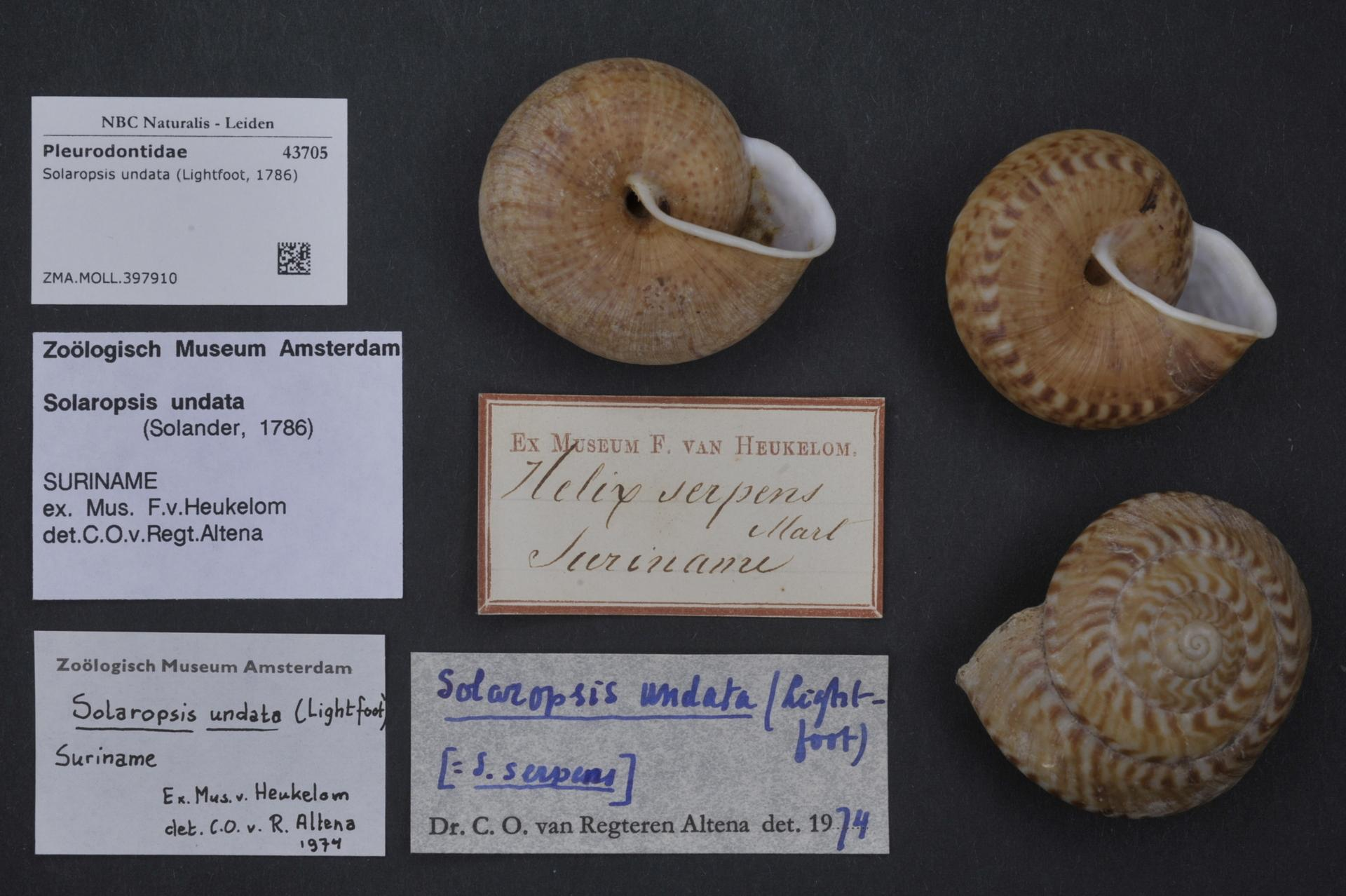 Solaropsis undata (Lightfoot, 1786)